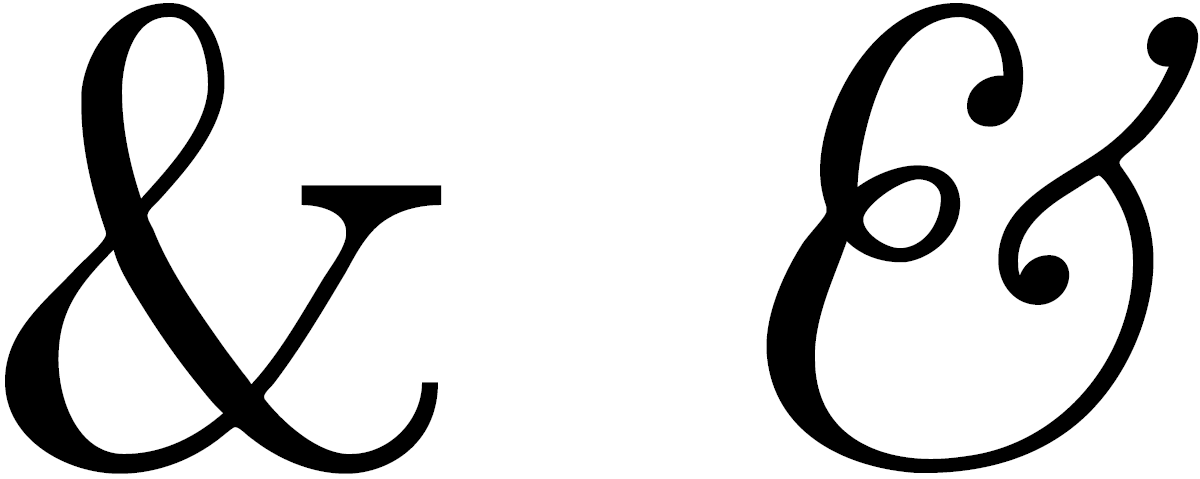 Ampersand in plain and italics.